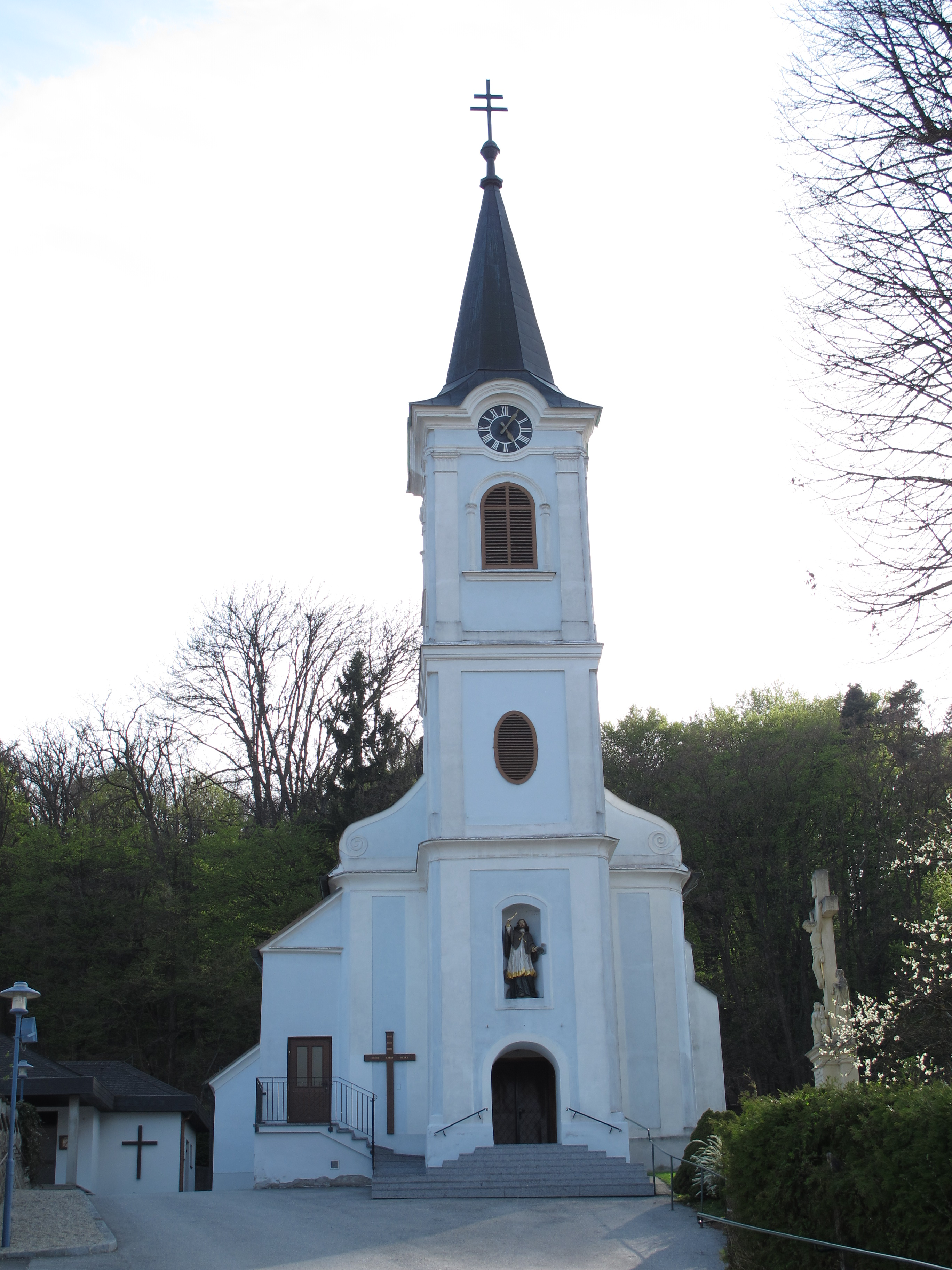 Pfarrkirche Jabing